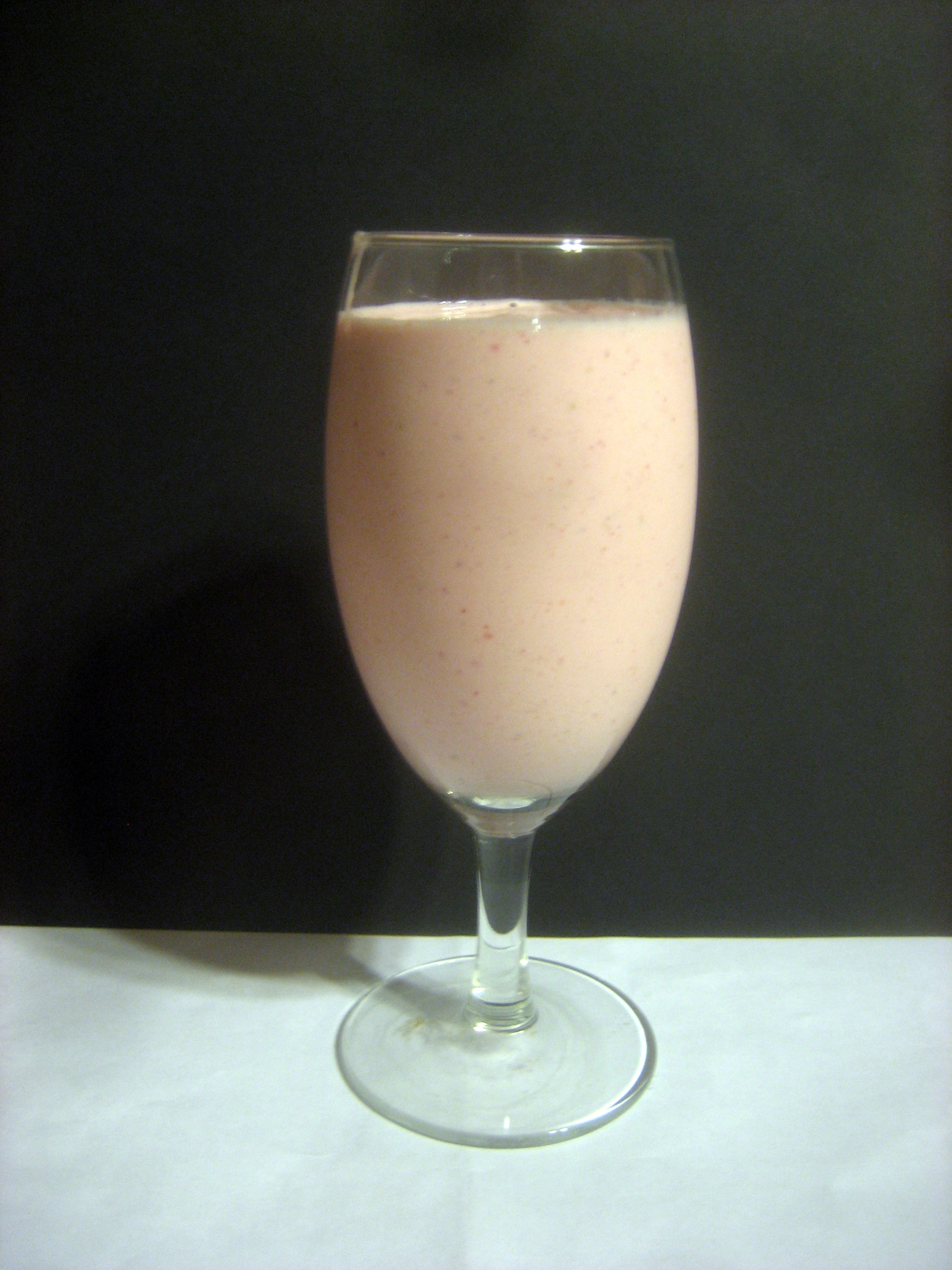 Low-Fat Strawberry-Banana Yogurt Smoothie 1 cup thawed COOL WHIP FREE Whipped Topping 1 container (6 oz.) strawberry nonfat yogurt 1 cup sliced strawberries 1 medium banana, sliced 1 cup crushed ice PLACE all ingredients in blender; cover. Blend on high speed 30 sec. or until well blended. POUR evenly into three glasses. SERVE immediately. Nutrition: Calories 12o Carbohydrate 26g Total fat 1.5gFiber 2 g Saturated Fat 1.5gSugar 14 g Cholesterol 0 mg Protein 3 g Sodium 45mgVitamin C 60%